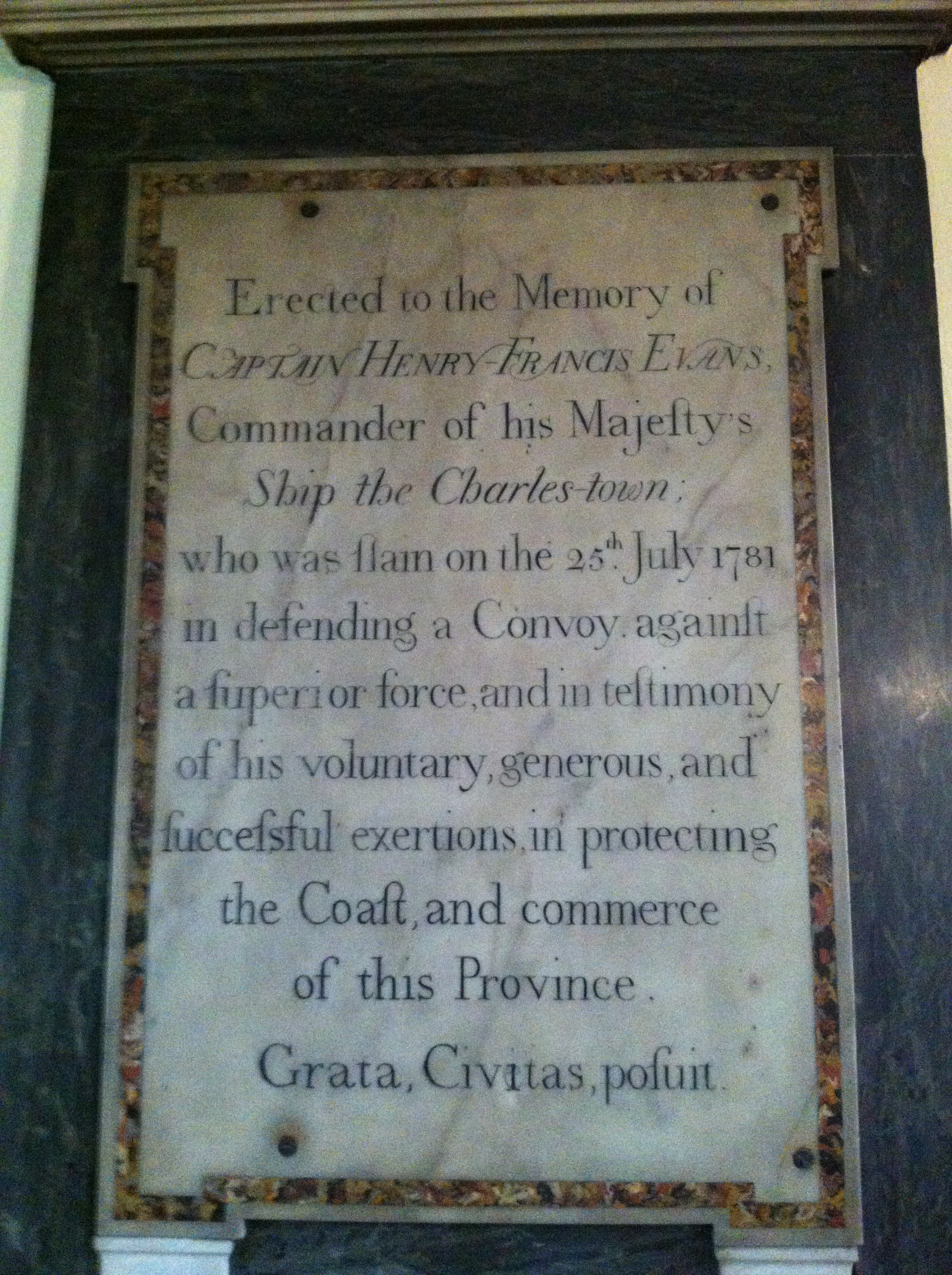 Capt Henry FrancisEvans S tPauls Church Halifax NovaScotia